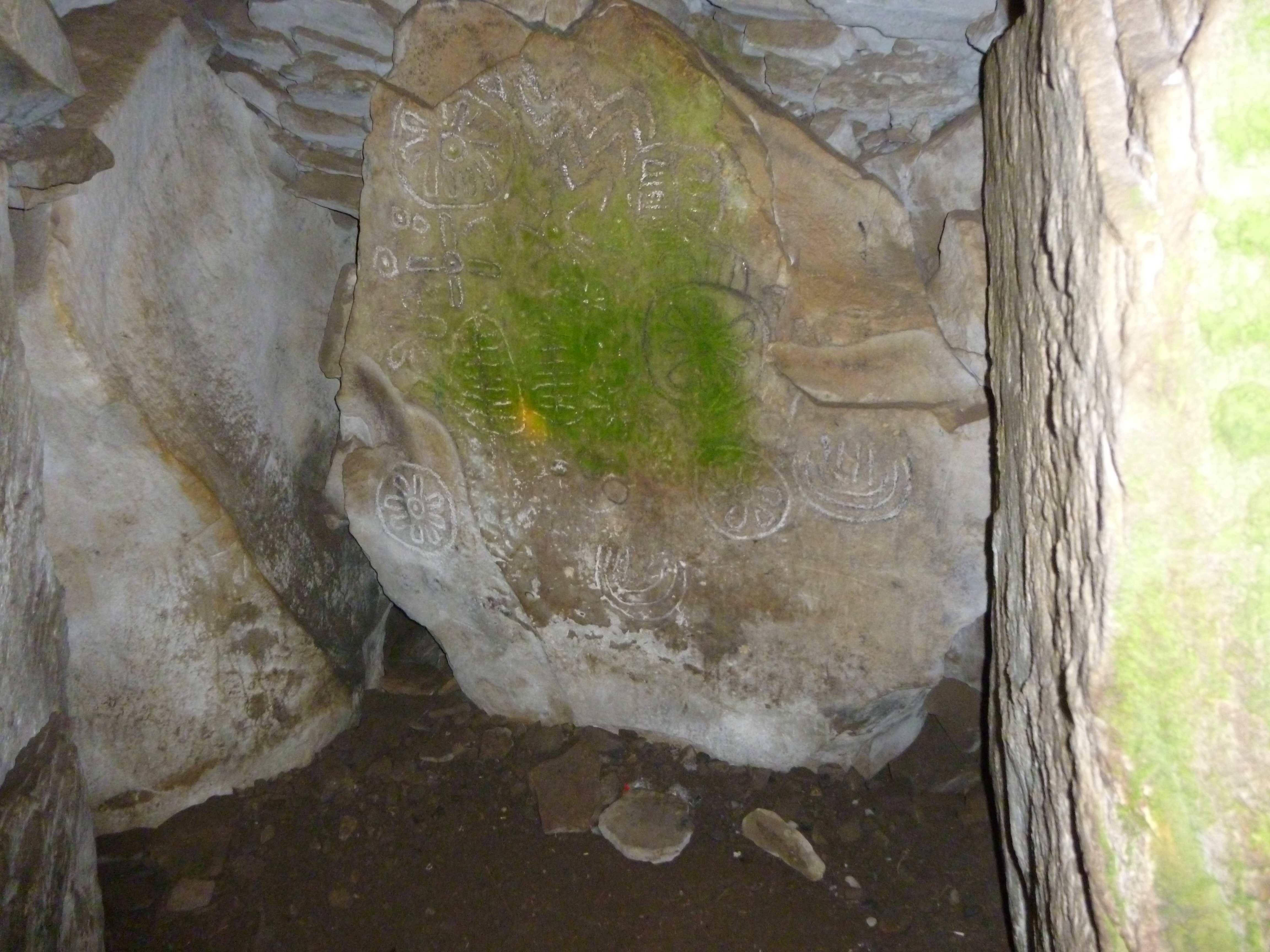 Loughcrew Passage Tomb: At the end of the passage you see one of three chambers, the largest one with extensive symbolic carvings from stone age people. This monument is around six thousand years old. The photograph was taken by myself standing under the stone et inner dome, with a flashlight and in awe of this civilisation lone gone before us. It was during heritage week. Thus the passageway was open while guarded by tour guides. The light outside was clear and shining through the skylight within providing an eerie illumination. Smaller uncapped monuments surround Cairn T like satellites.